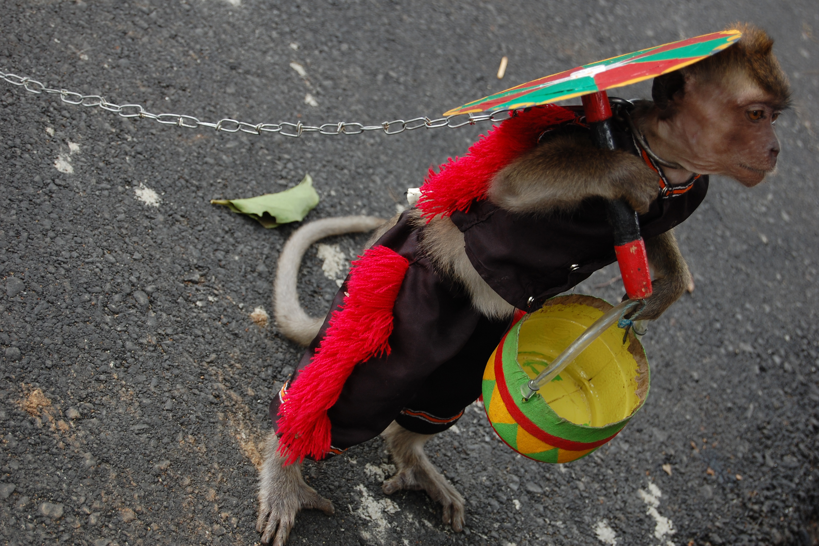 An Indonesia traditional topeng monyet show (A dance performed by dressed Macaca fascicularis) to gather coins, from the audience, especially children. Taken from Taman Mini Indonesia Indah.